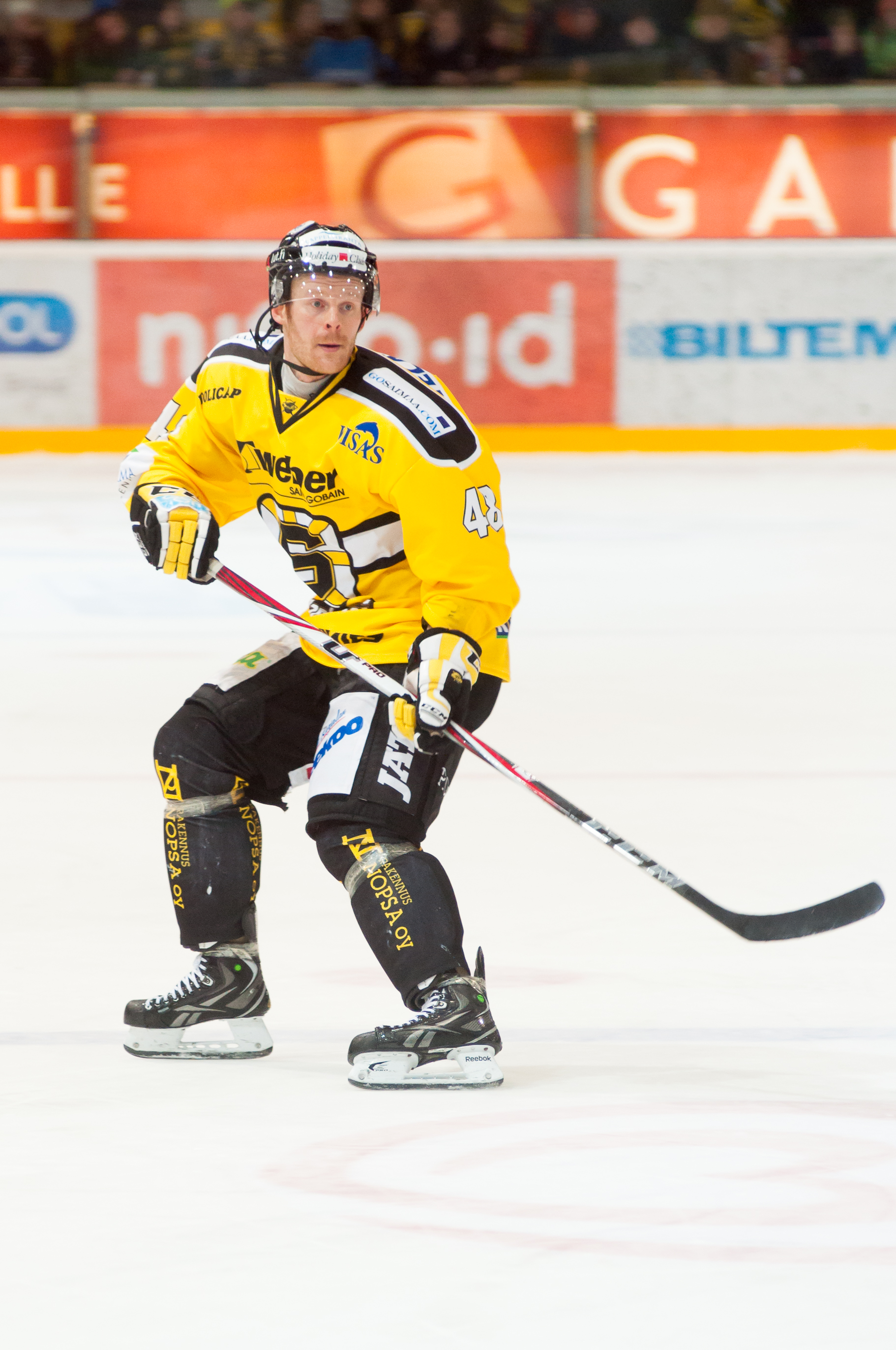 Ice hockey defenseman Mikko Pukka of SaiPa Lappeenranta playing against Oulun Kärpät in Lappeenranta, Finland.